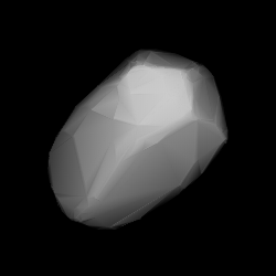 3D convex shape model of 1767 Lampland, computed using light curve inversion techniques. J. Hanuš, J. Ďurech, M. Brož, B. D. Warner (June 2011). "A study of asteroid pole-latitude distribution based on an extended set of shape models derived by the lightcurve inversion method". Astronomy and Astrophysics 530: A134. ISSN 0004-6361. arXiv